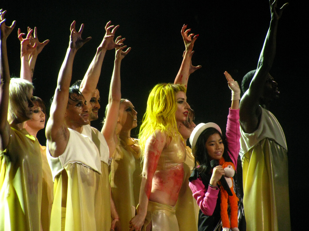 Lady Gaga singing "Born This Way" with her ten-year-old fan, Maria Aragon, on her right. Aragon is the girl from Winnipeg, Canada, whose YouTube cover of "Born This Way" thrust her into the limelight. (The Monster Ball Tour in Toronto, 2011-03-03)